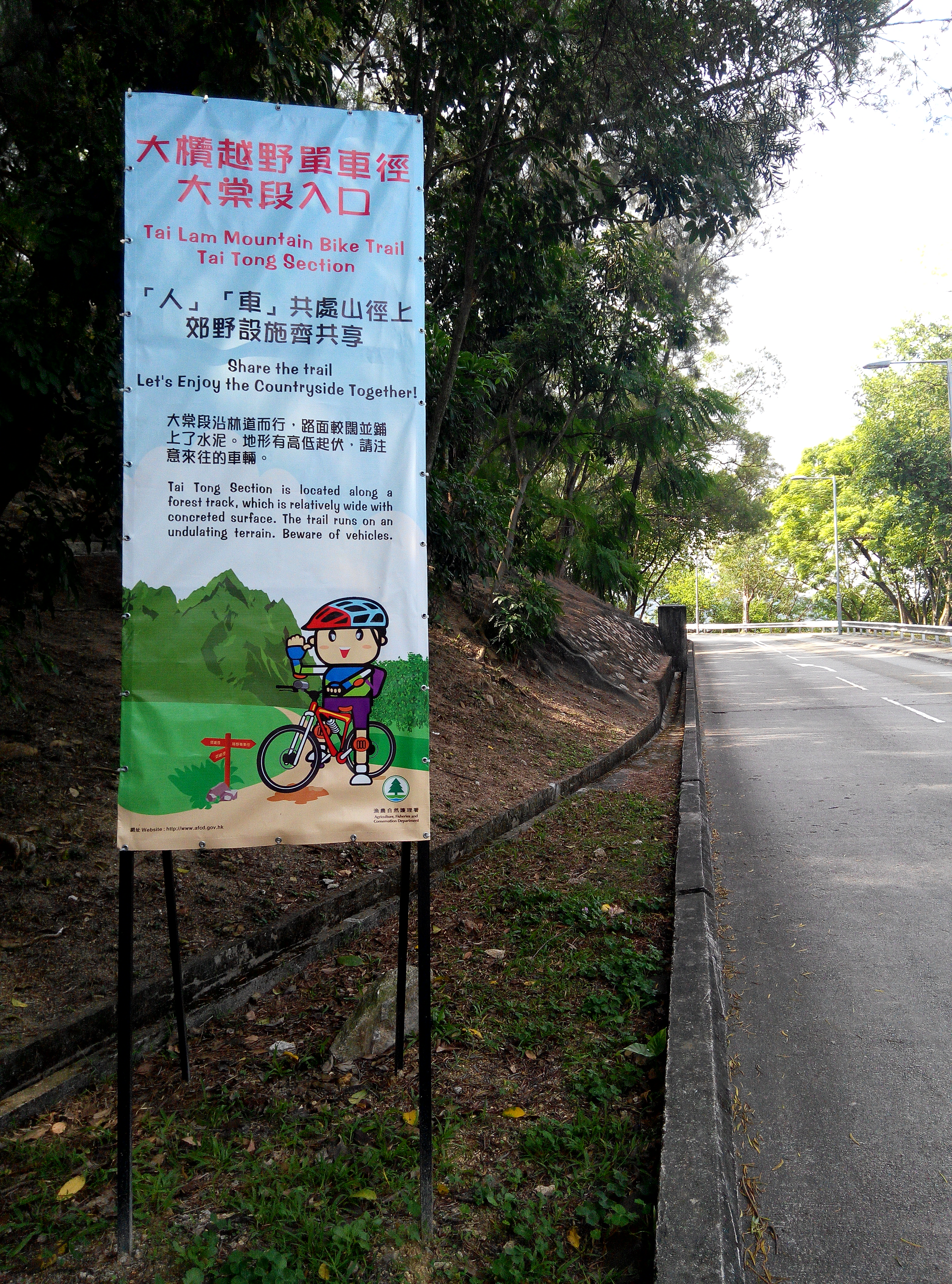 Hong Kong Tai Lam Mountain Bike Trail - Tai Tong Section